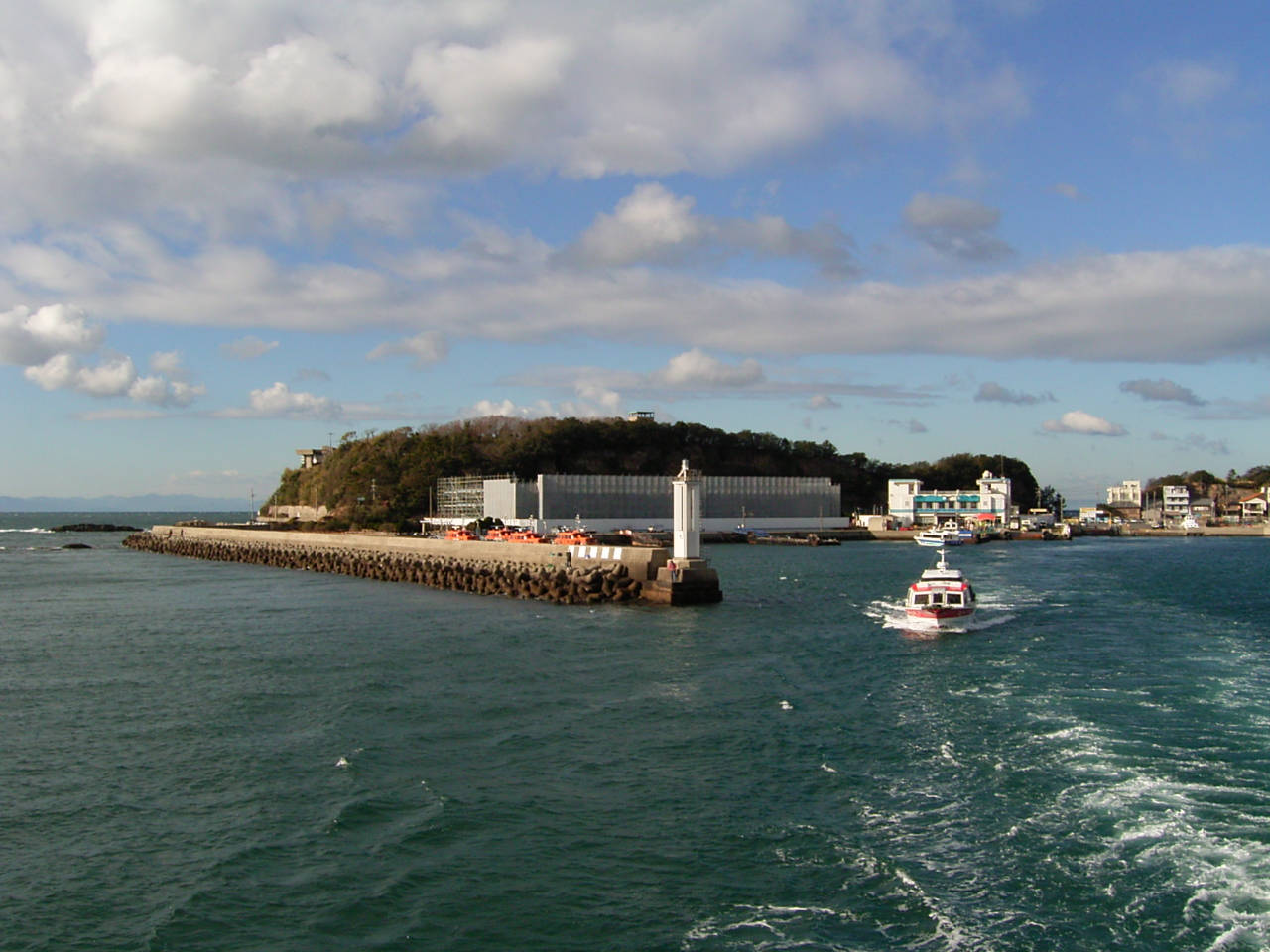 Morozaki port Aichi Japan